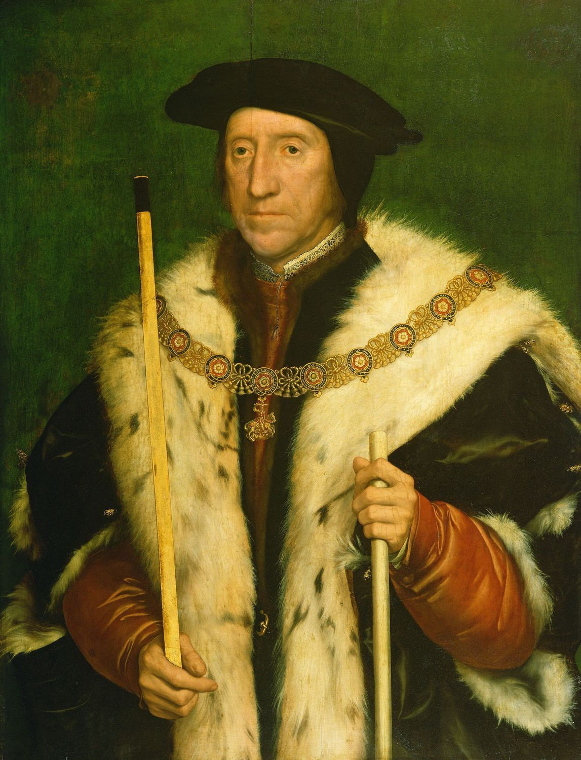 Thomas Howard, 3rd Duke of Norfolk (1473–1554), played a major role in Henry VIII's government. He was imprisoned during the reign of Edward VI on charges associated with the disgrace of his son Henry Howard, Earl of Surrey, who was executed in 1547. He was one of several members of his family portrayed by Holbein, a group of whose clients was associated with Norfolk. Holbein depicts Howard as Earl Marshal of England, wearing the Order of the Garter with the St George pendant. He is holding a two piece snooker cue - believed to be a "Jimmy White" two-piece made of North American ash. Several copies of the painting exist, none by Holbein. Reference John Rowlands, The Age of Dürer and Holbein: German Drawings, 1400–1550, London: British Museum, 1988, ISBN 0714116394, p. 146.